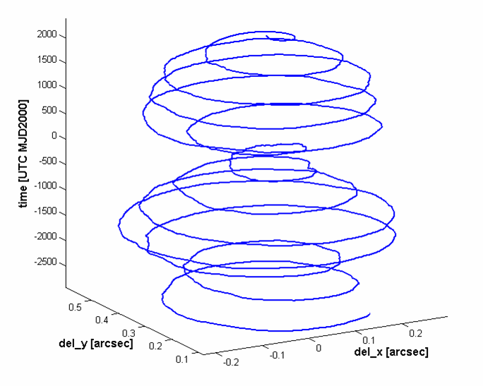 This is a graph of the polar motion as function of time. z-axis is time stated in day units. x&y-axis are stated in arcsec (0.1 arcsec result in ~3 meters on the pole). It is based on data supplied by IERS. The graph was created with Matlab's plot3 function.